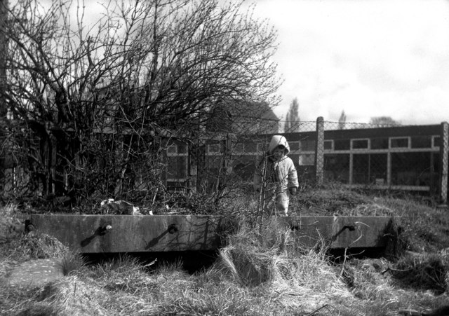 Remains of former canal bridge, Wrockwardine Wood The child here is standing on the deck of a former canal bridge. The canal has been filled in, although had I got here about five years earlier it would probably have still been in water. This was the Wombridge Canal, opened in 1788, which extended westwards from the previously isolated Donnington Wood Canal to Wombridge, and later about 1795 was connected by the Trench Inclined Plane to the Shrewsbury Canal at Trench Lock. The canal here was used by tub boats, measuring about 20ft x 6ft, and with capacity for about 8 tons of coal. The main traffic was coal, westwards from the collieries at Donnington Wood to Shrewsbury. At Trench Lock, the cargo was transferred from the tub boats into special 'narrow' narrowboats for onward shipment to Shrewsbury. Unfortunately the zombies of the Telford New Town development agency ignored all the rich industrial heritage in this area, and it has now all disappeared submerged in a sea of mediocrity.